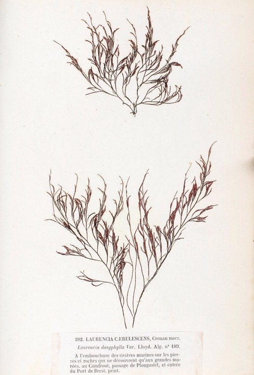 « Laurencia caerulescens » = Chondria coerulescens